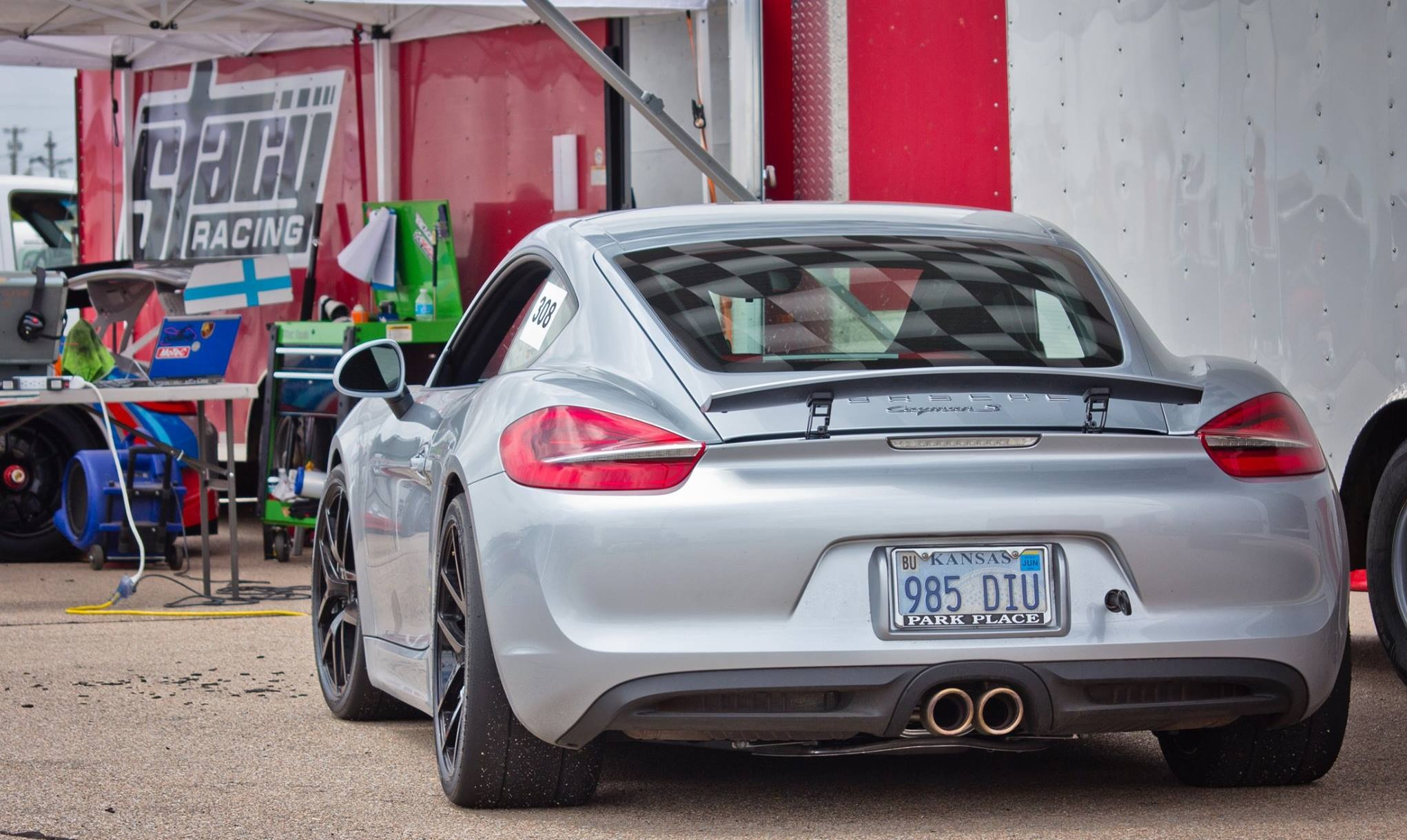 Porsche